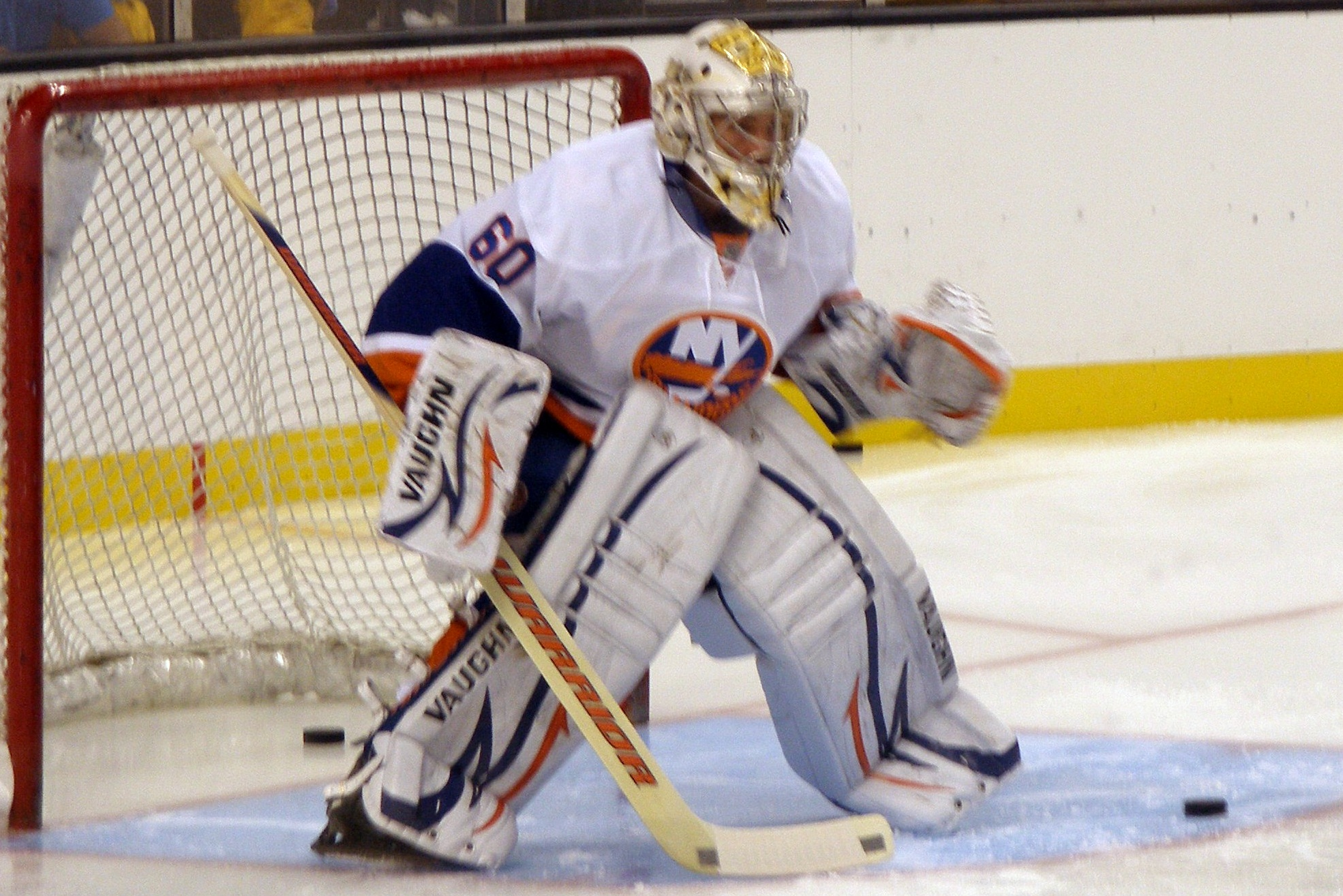 Kevin Poulin during warmups prior to a rookie game between the New York Islanders and Boston Bruins at the TD Garden in September 2010.